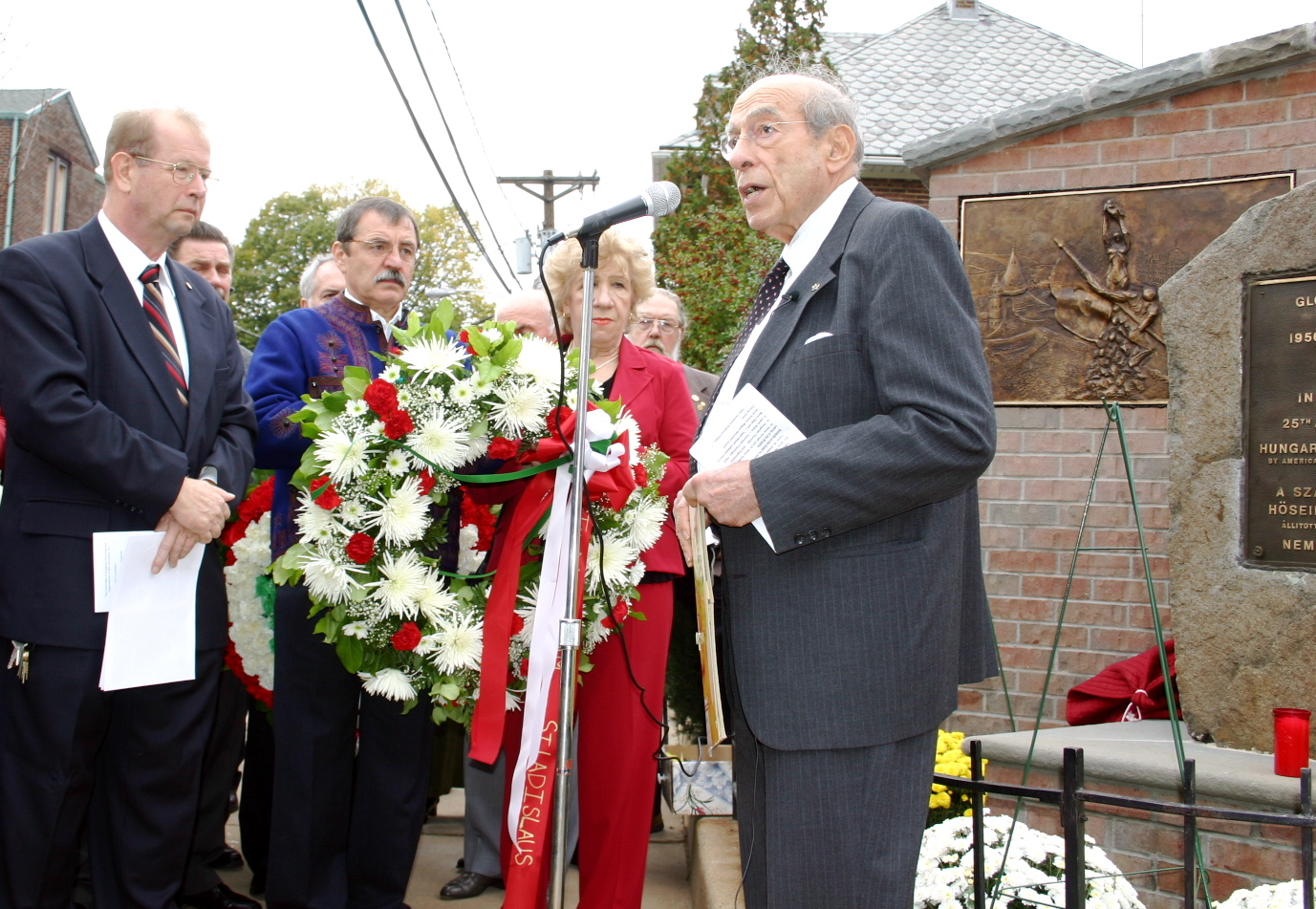 The Committee of Hungarian Churches and Organizations of New Brunswick is commemorating the anniversary of the Hungarian Revolution of 1956 at the memorial in New Brunswick, NJ at the corner of Somerset Street and Plum Street.